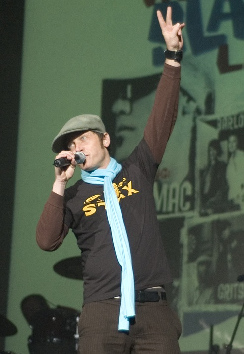 Christian singer TobyMac performing at his annual Winter Wonder Slam Tour, in December 2005.